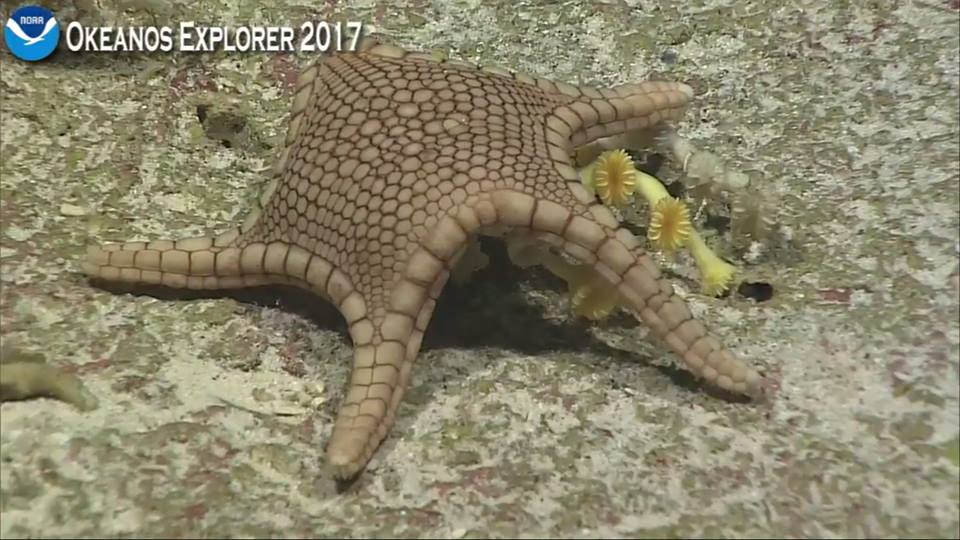 A deep-sea goniasterid sea star (probably Astroceramus sp.), observed by the NOAA Okeanos Explorer mission "2017 American Samoa Expedition: Suesuega o le Moana o Amerika Samoa".